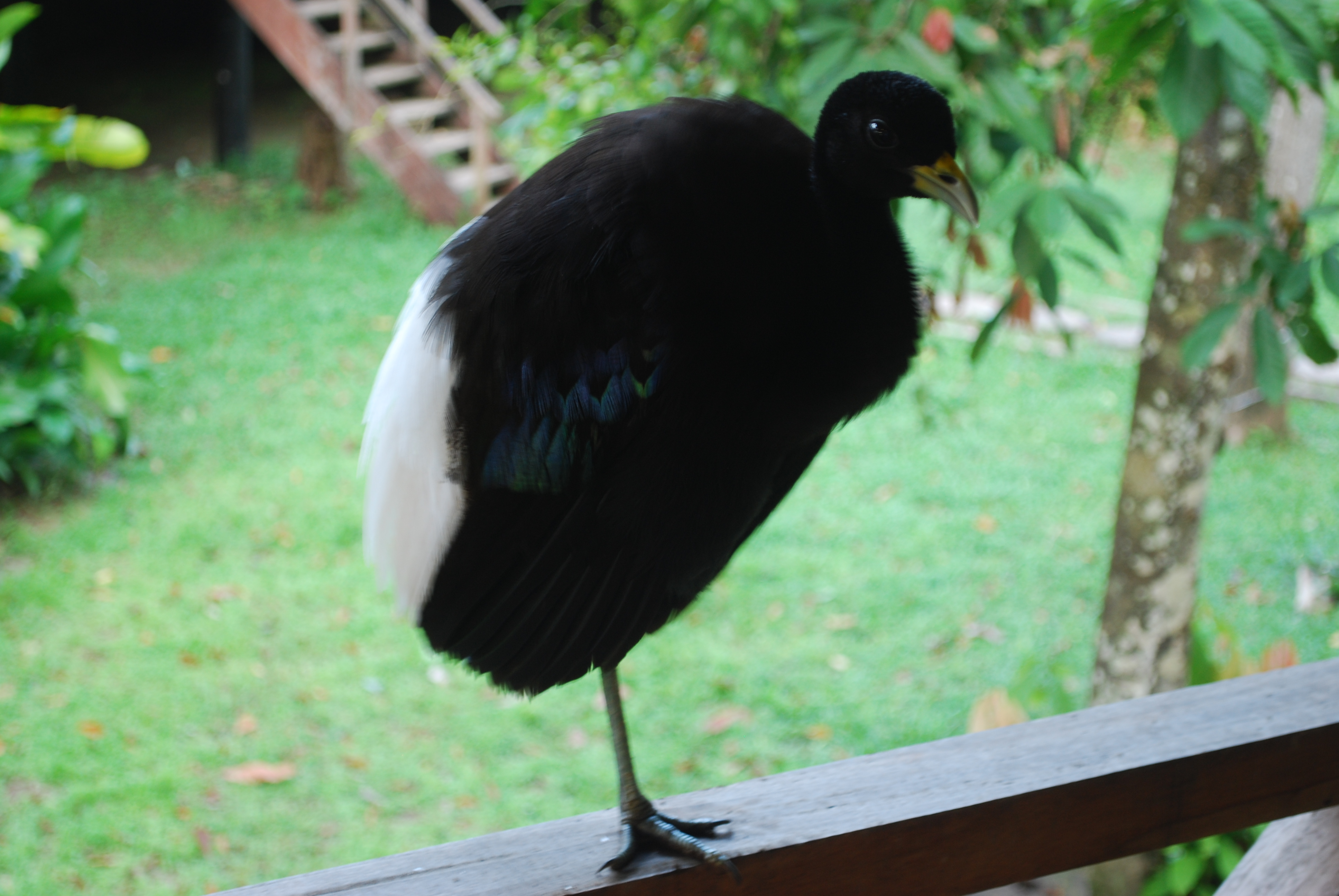 Pale-winged Trumpeter (also known as the White-winged Trumpeter) photographed near Puerto Maldonado, Peru.